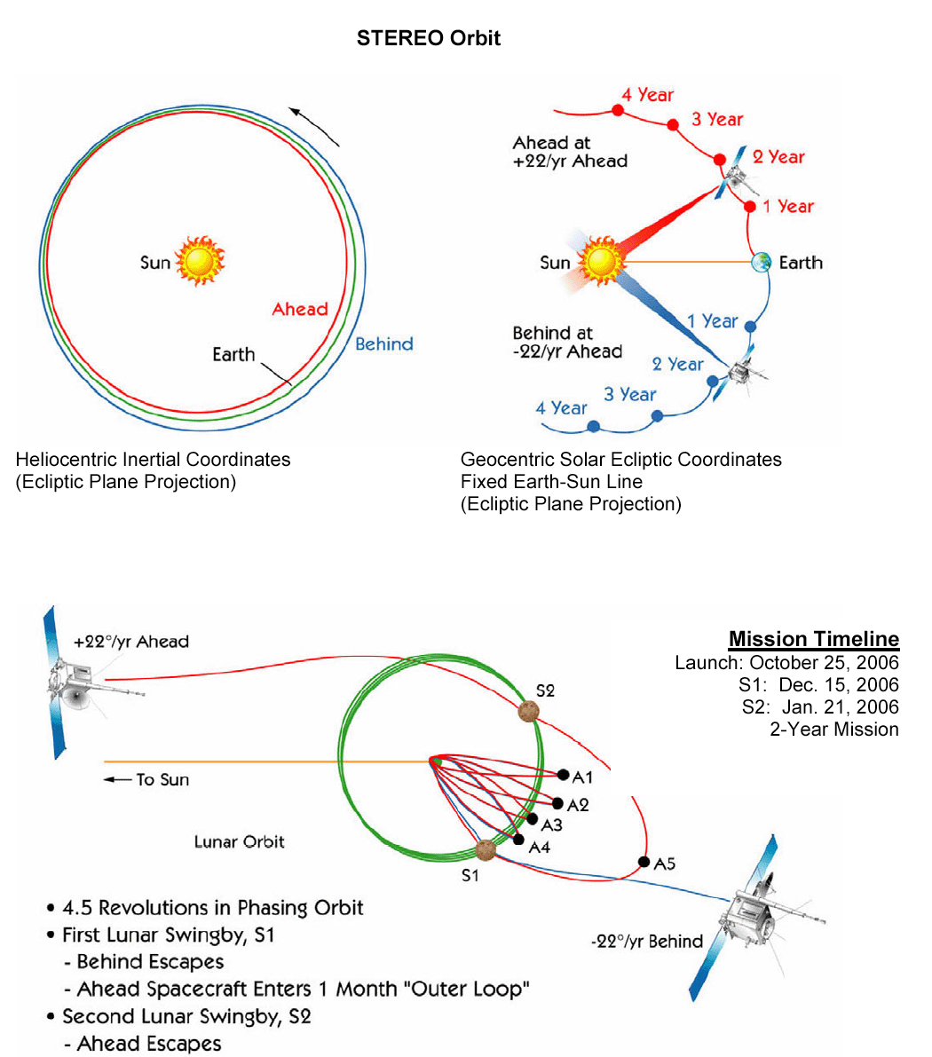 STEREOs Sun Orbits and Earth Escape trajectorys